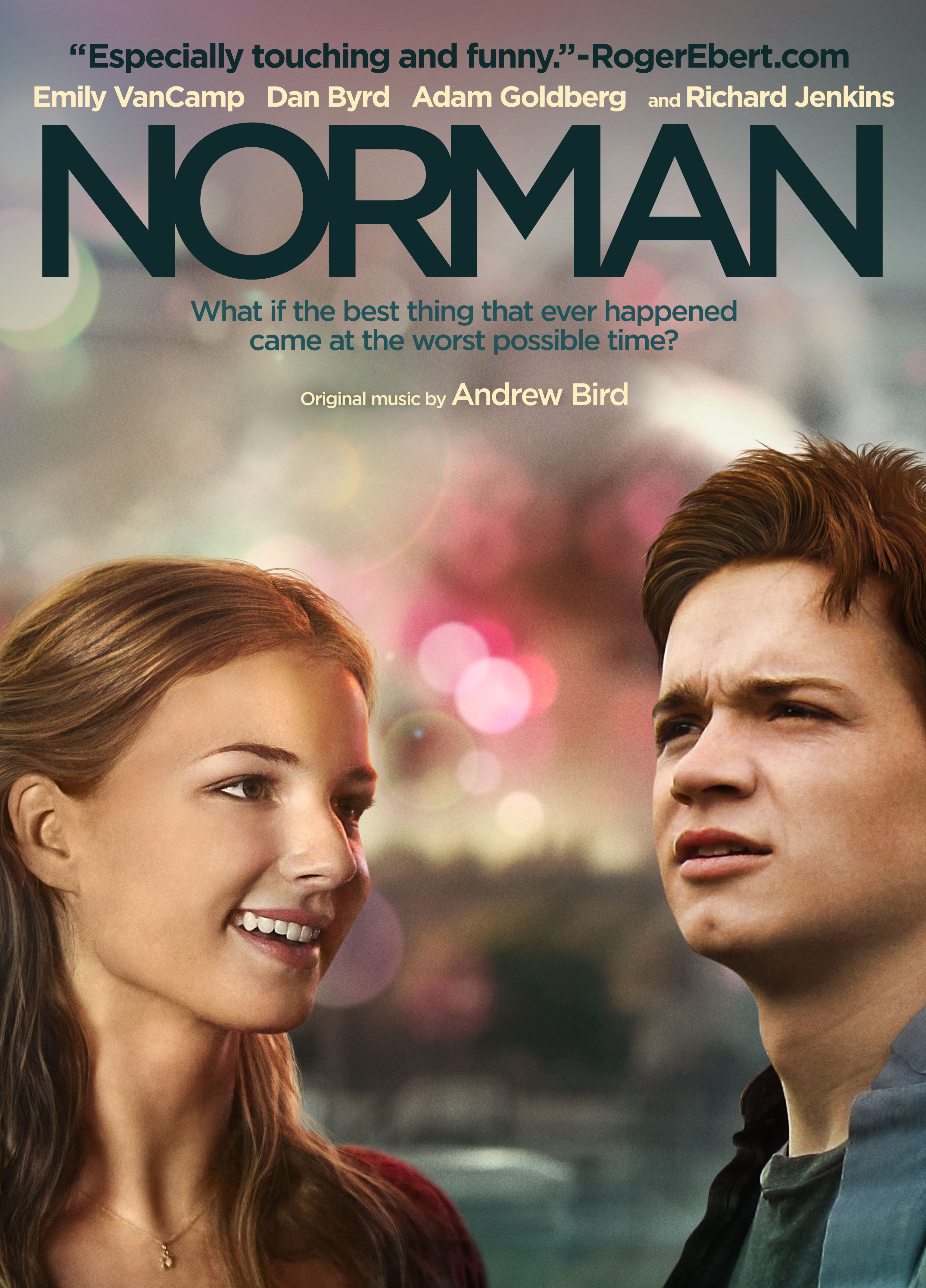 Norman (film) Poster 2014